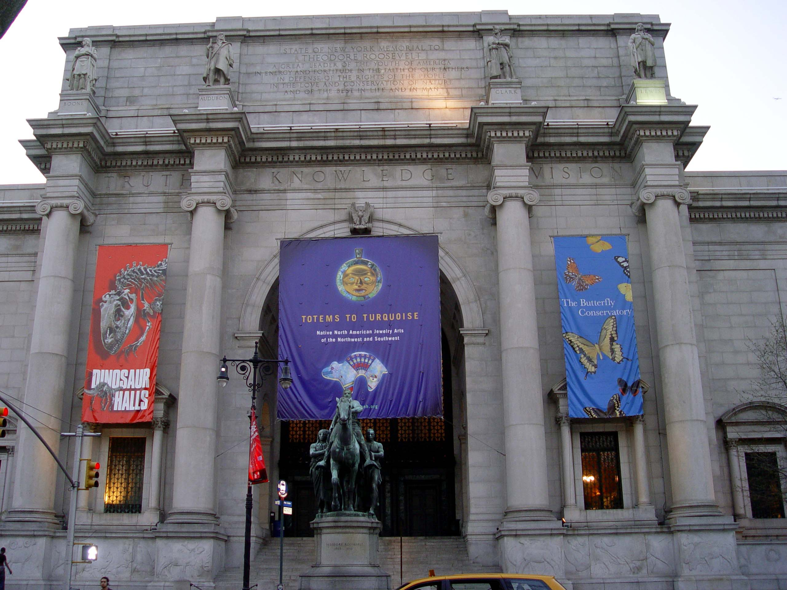 Looking west at Museum of Natural History, main entrance.